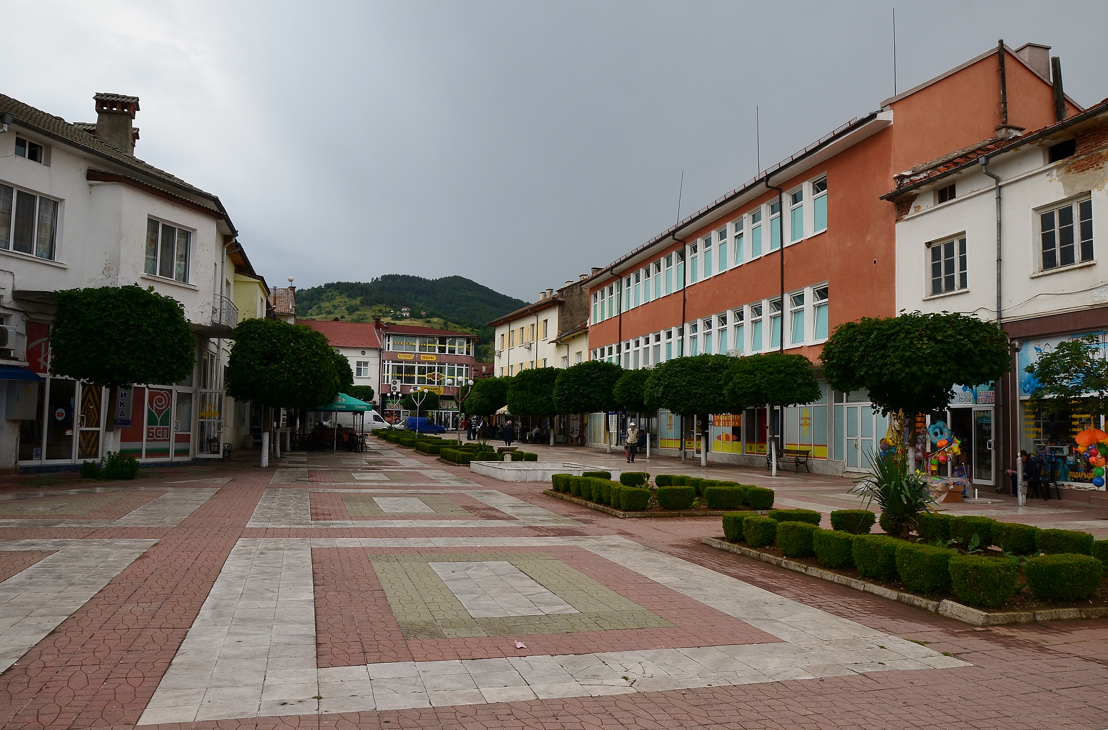 Ardino